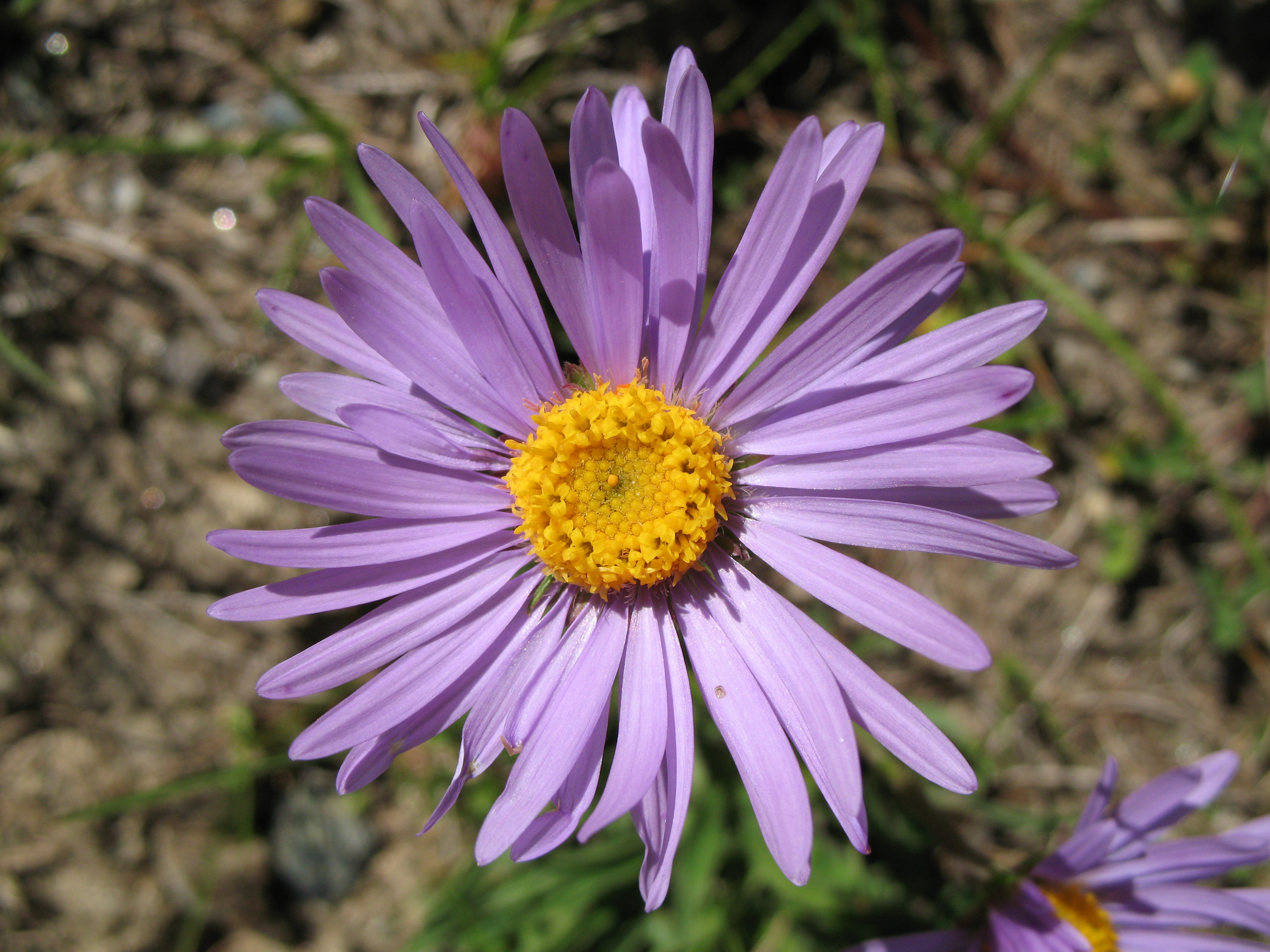 Alpine aster (Aster alpinus), Gornergrat, Switzerland.